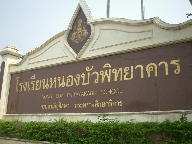 photo by pairush